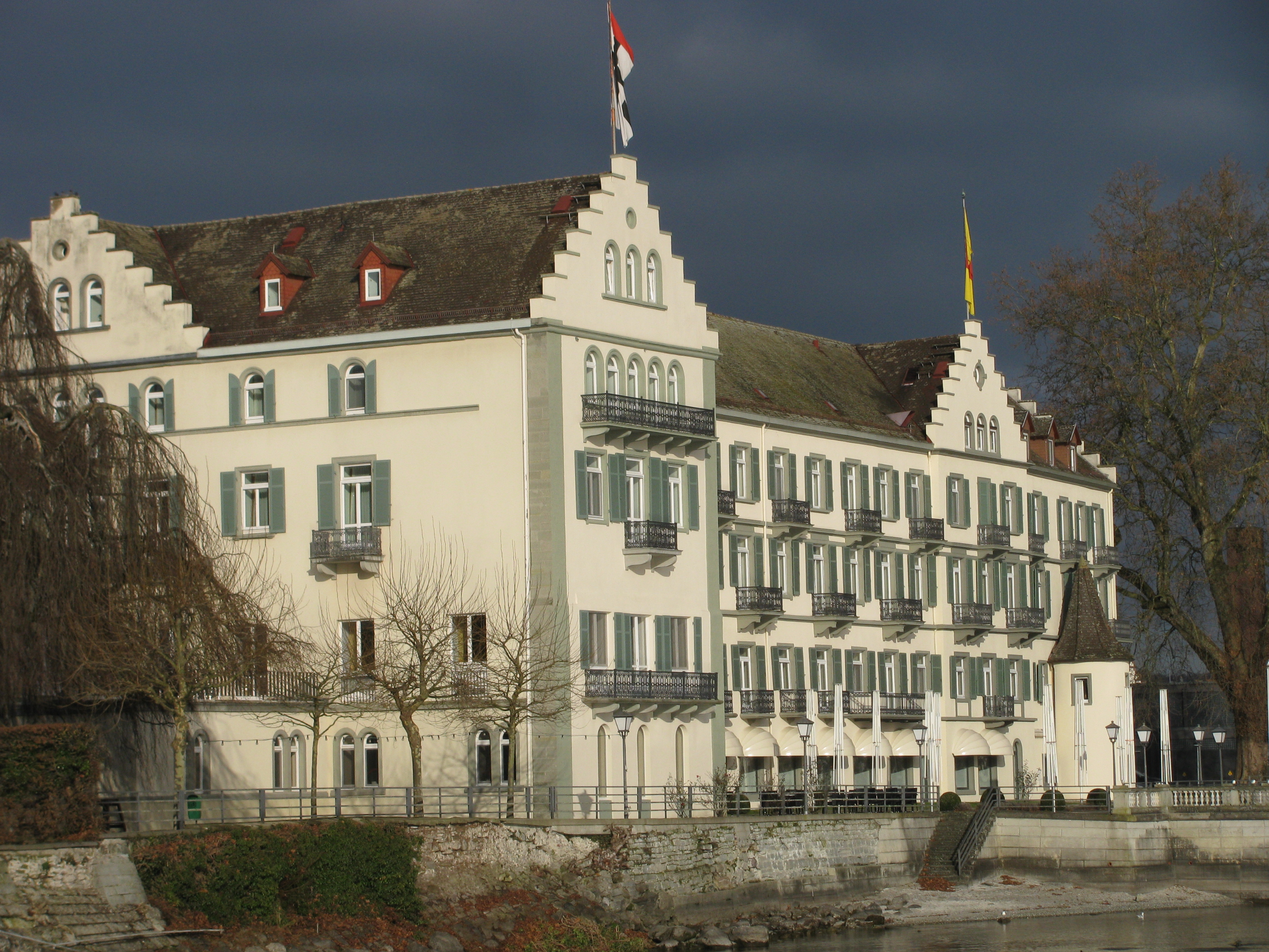 Germany - Baden-Württemberg - district Konstanz - Konstanz: Dominicans Island, Steigenberger Hotel